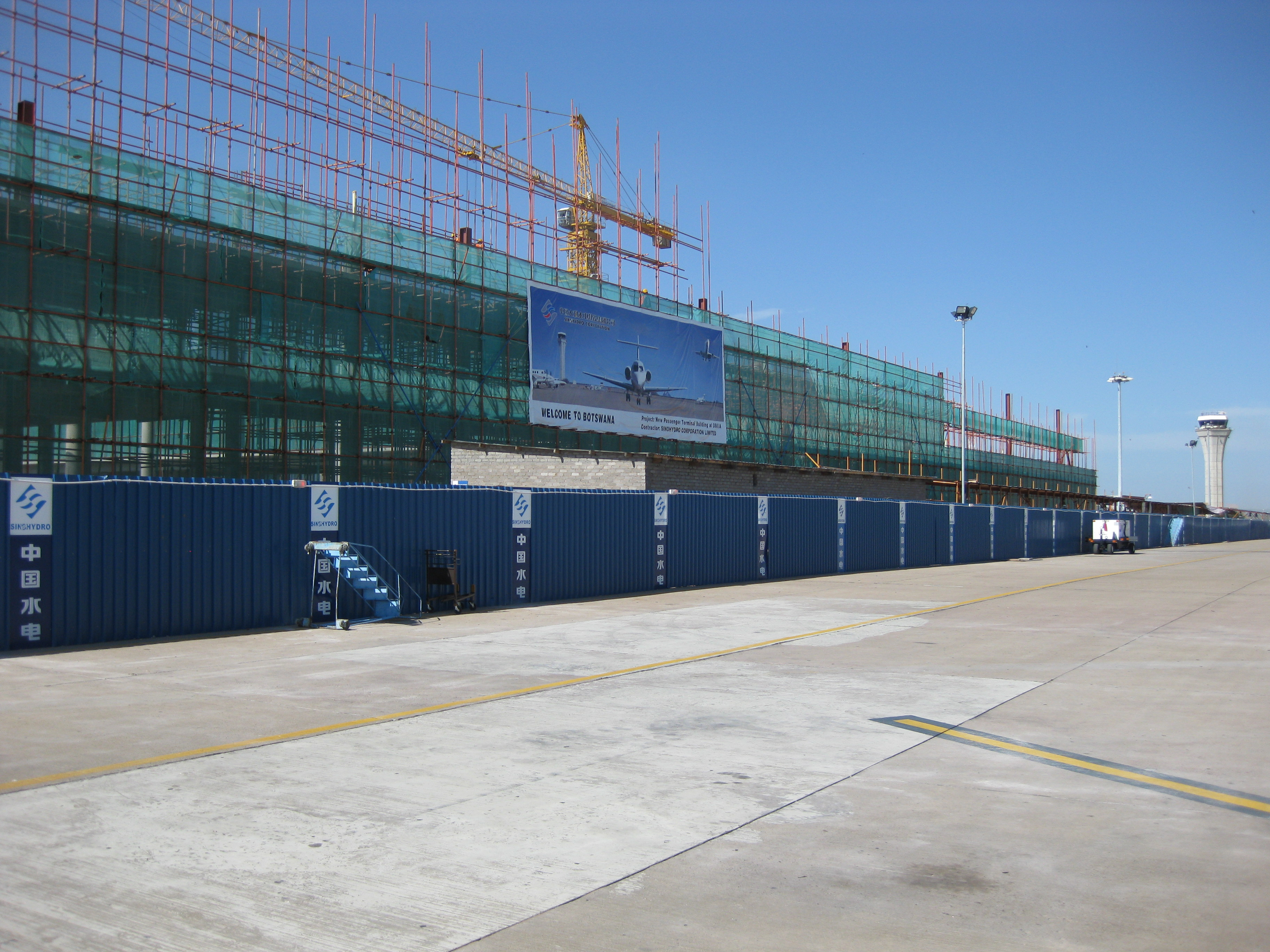 The new passenger terminal of the Sir Seretse Khama International Airport in Gaborone, Botswana, under construction